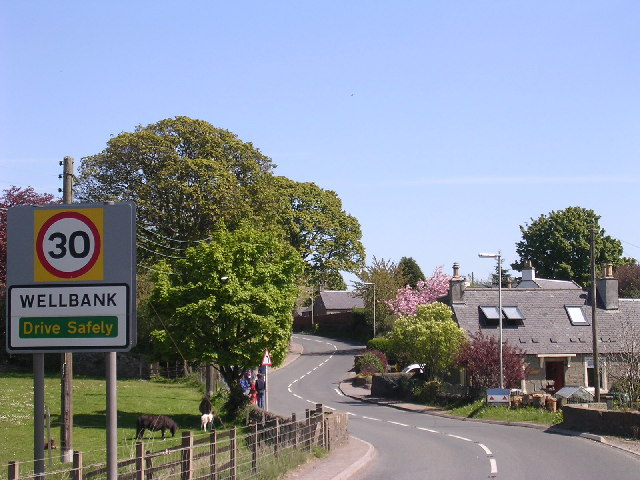 Wellbank. Entering the village of Wellbank from the south on the B978